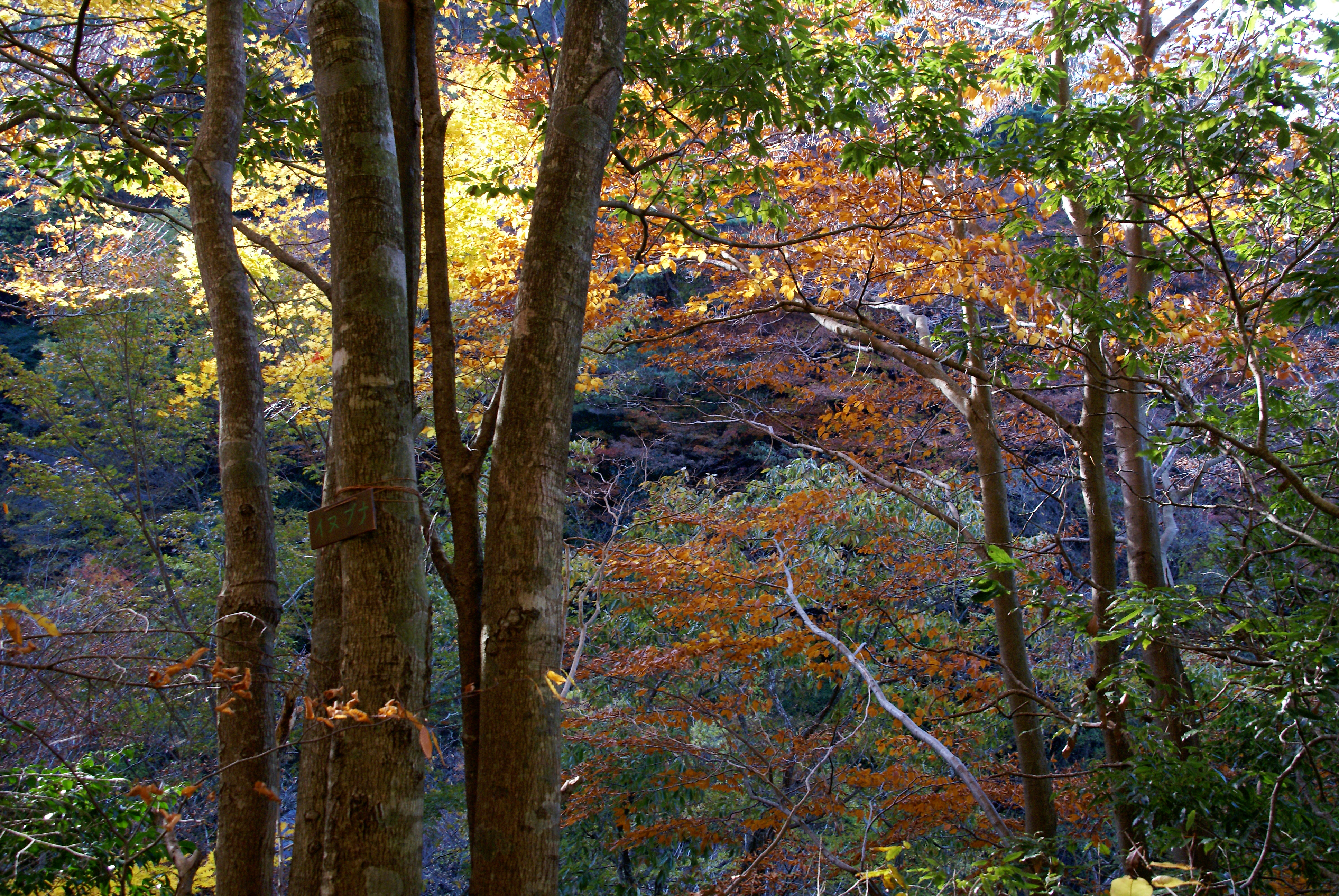 Momiji-dani valley in Mount Rokko, Kobe, Hyogo prefecture, Japan